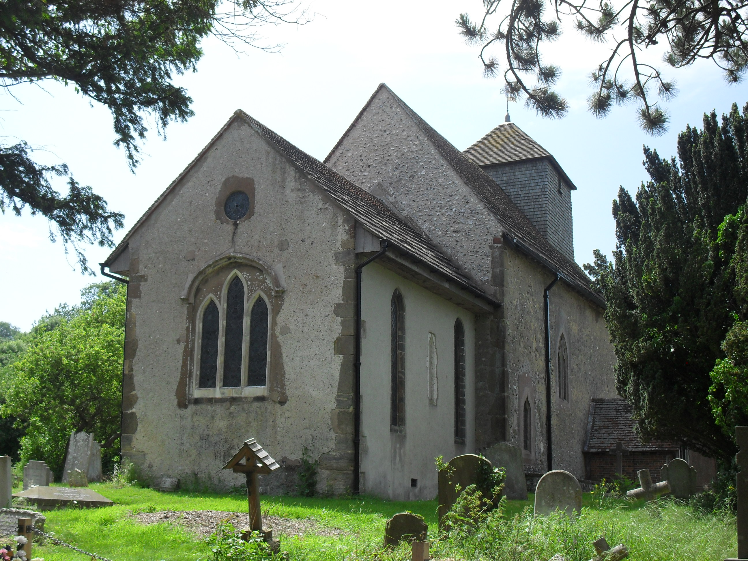 Exterior view (from the northeast) of the Grade I-listed St John the Baptist's Church, Clayton, West Sussex, England.